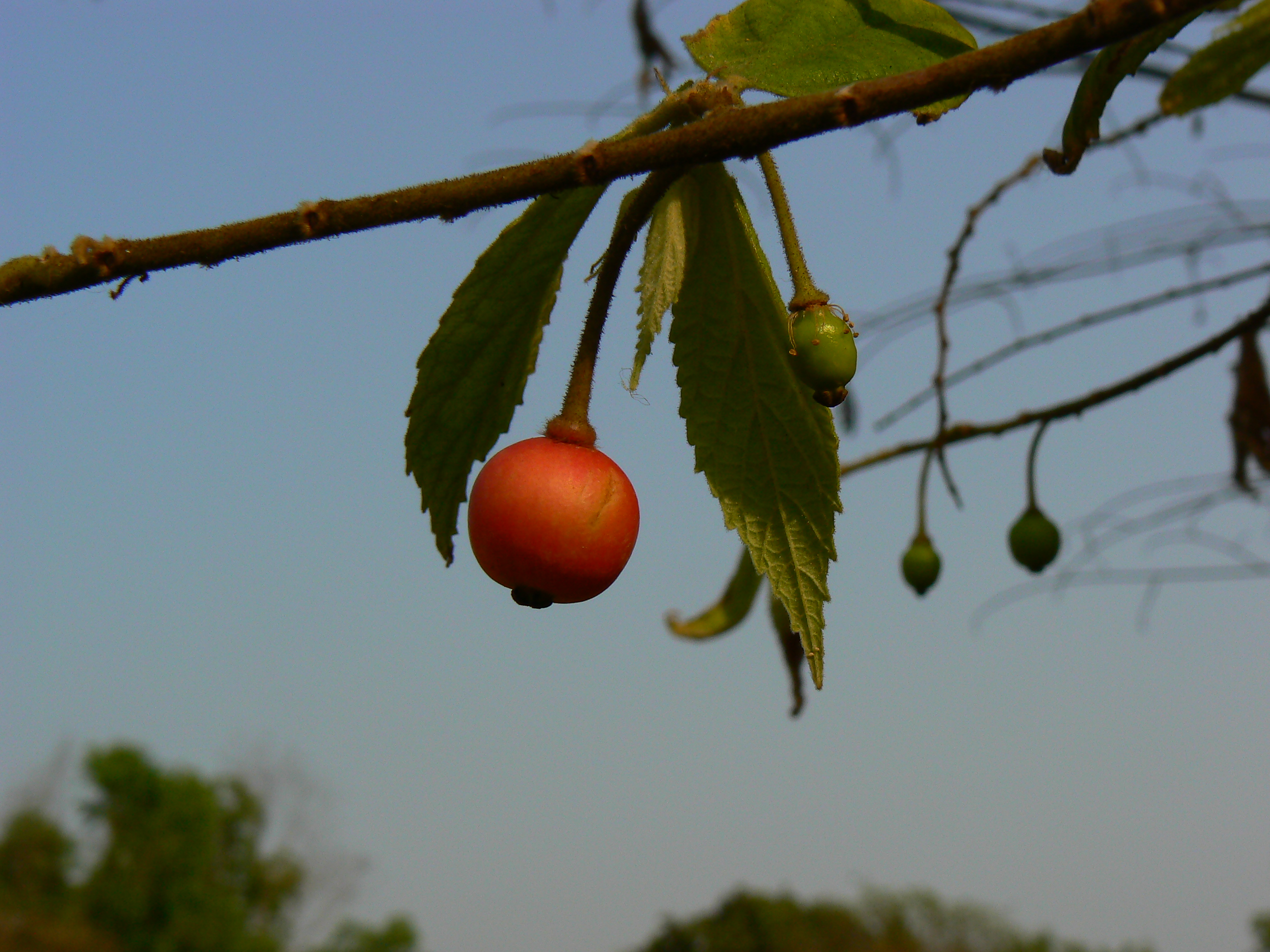 Panama cherry